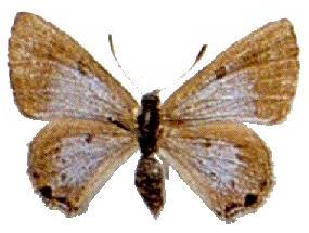 identifying features of Australian butterfly species wing pattern